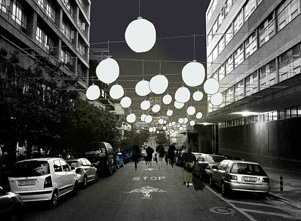 Nightlife in Maboneng